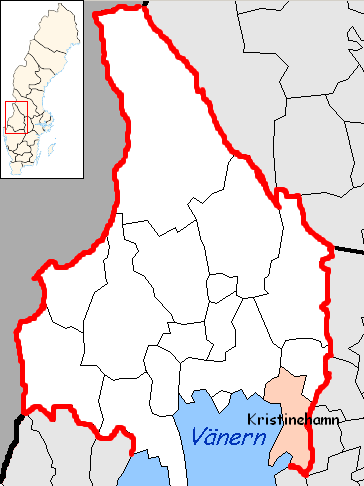 Kristinehamn Municipality in Värmland County Designd by me, based on Image:Värmland County.png